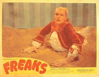 Low resolution image of 1949 release lobby card for the film Freaks (1932), featuring star Olga Baclanova.